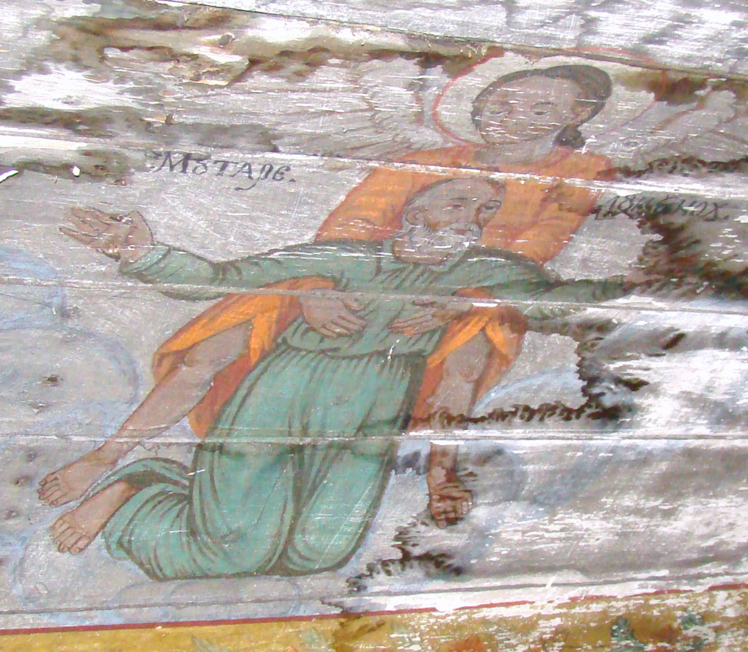 Wooden church in Bârsa, Sălaj